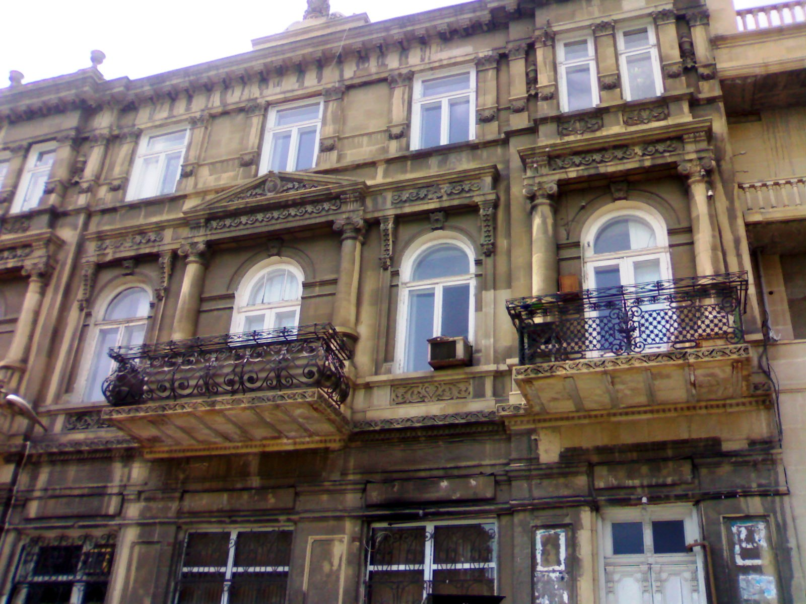 Baku old city house Vagif Mustafazadeh